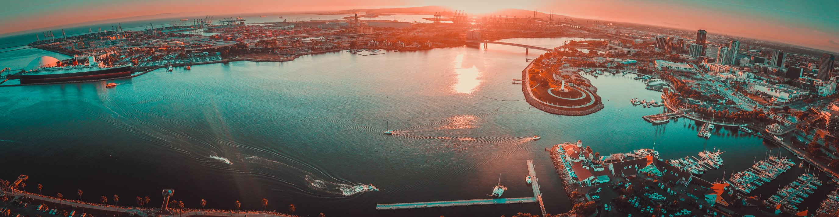 Panorama Picture of Long Beach